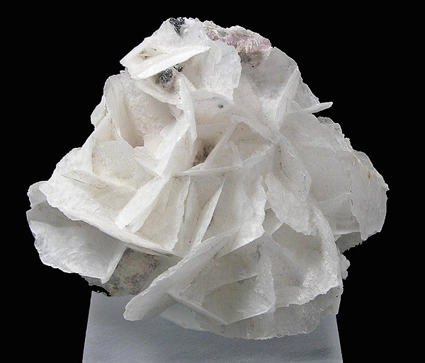 Calcite Locality: Himalaya Mine (Himalaya pegmatite; Himalaya dikes), Gem Hill, Mesa Grande District, San Diego County, California, USA (Locality at ) Size: 5.9 x 5.3 x 3.2 cm. The Himalaya Mine is so famous for its tourmalines, and they make up such a large percentage of what has come from there onto the market, that you really do not think about other fine mineral specimens from the mine that occasionally come out. Look at this elegant, very distinctive CALCITE specimen, which came out of the collection of Chuck Houser (Leo Horensky had it before that). It is a cluster of extremely delicate, bladed crystals, inter-grown in a lacy pattern, on a thin bit of matrix in back (in the matrix, you can see bits of pink tourmaline and muscovite, giving hints of the origin). A fine piece for a California or calcite collector!